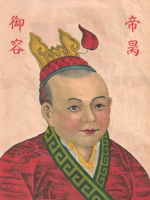 Portrait of Emperor Song Modi.